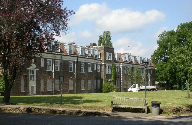 Milford Hospital. Milford Hospital, currently under threat of closure.